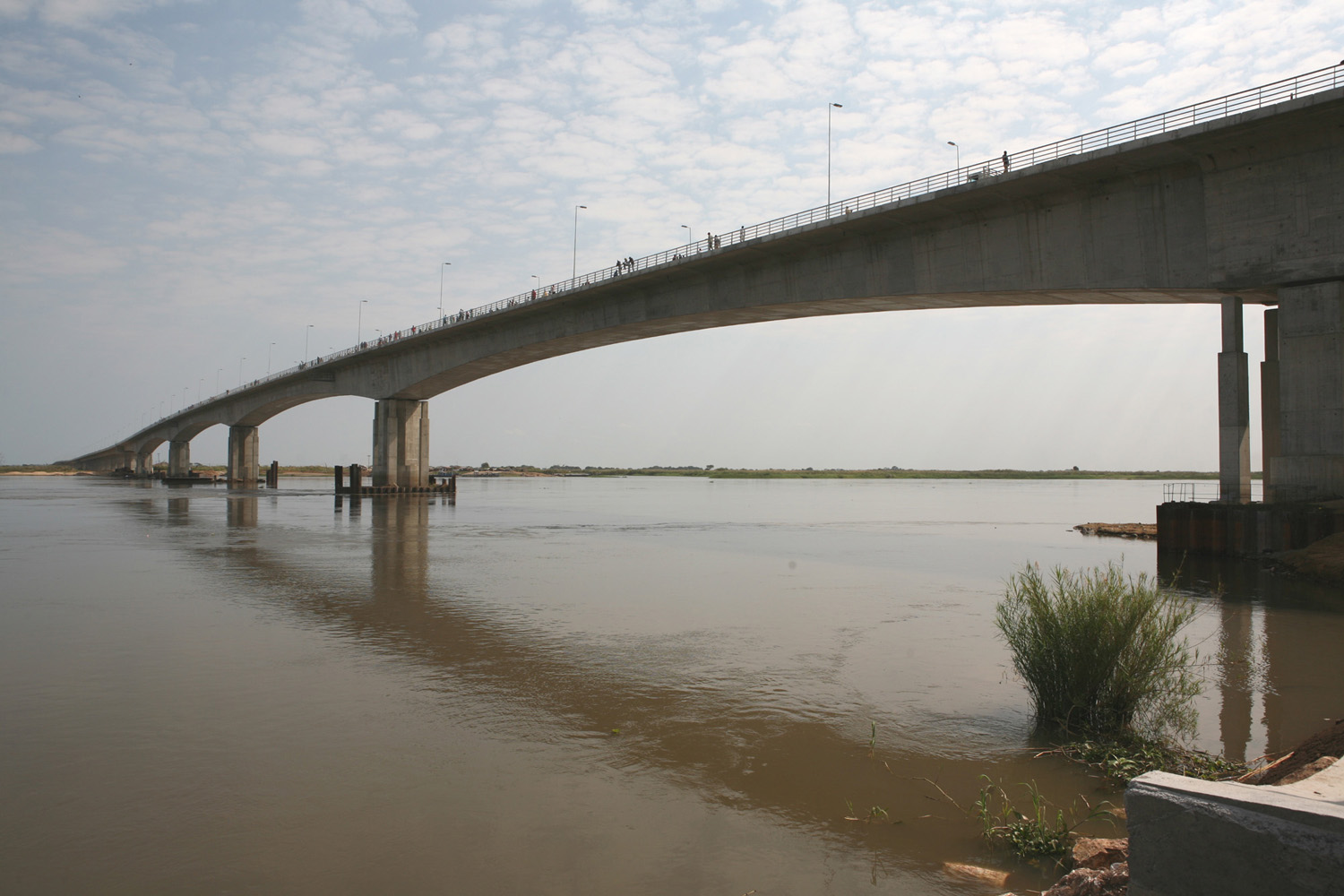 Armando Guebuza bridge, Mozambique over Tete River